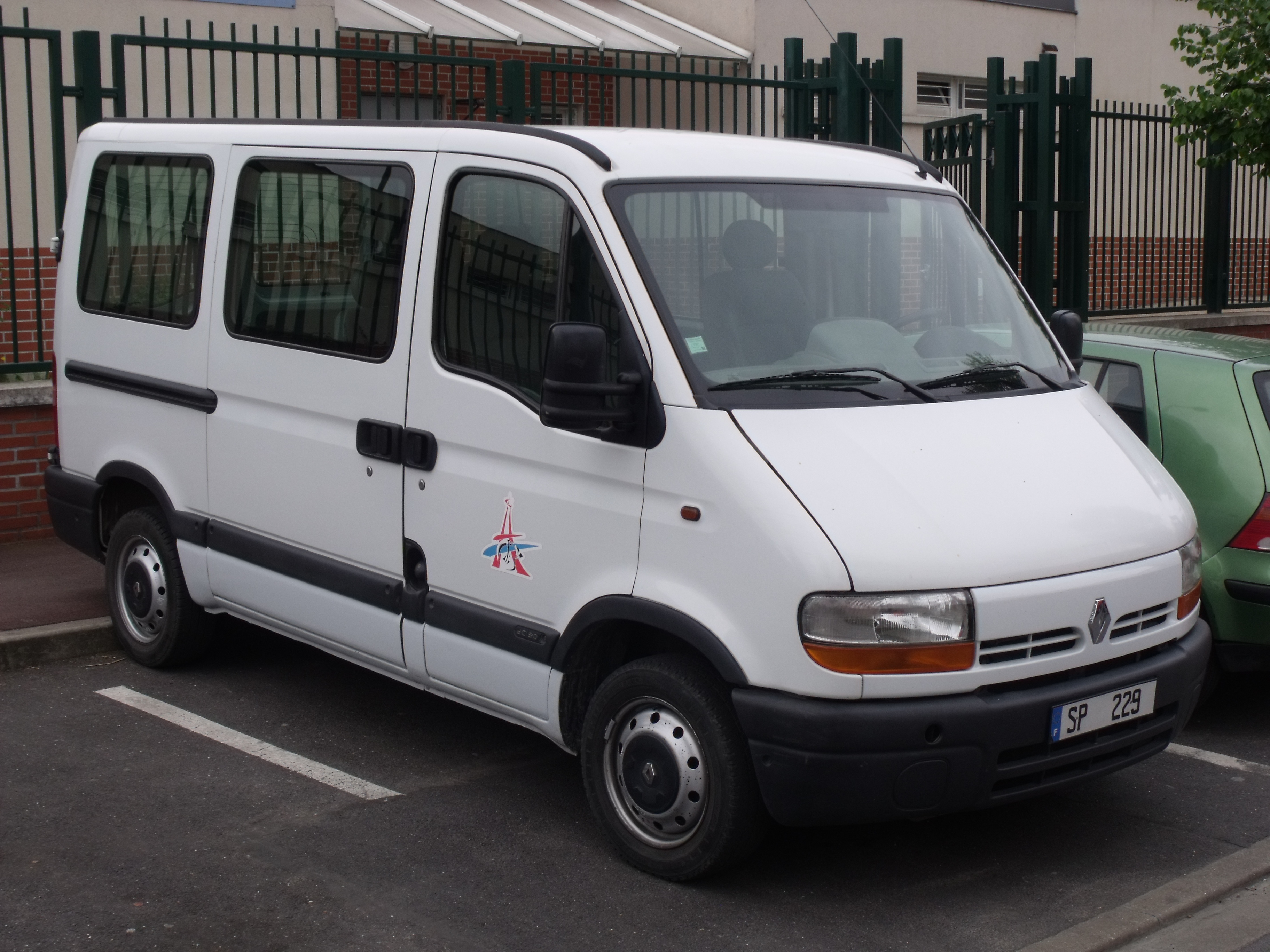 Operationnal support van SP229 use by Paris FB.